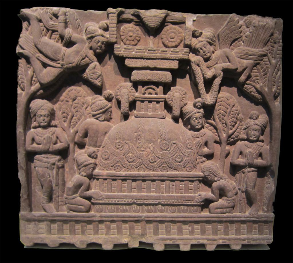 "One face of a fence-rail from Bharhut: Worship at a Stupa,” from Madhya Pradesh, India, on display at the Freer Gallery in Washington, DC ((F1932.26)